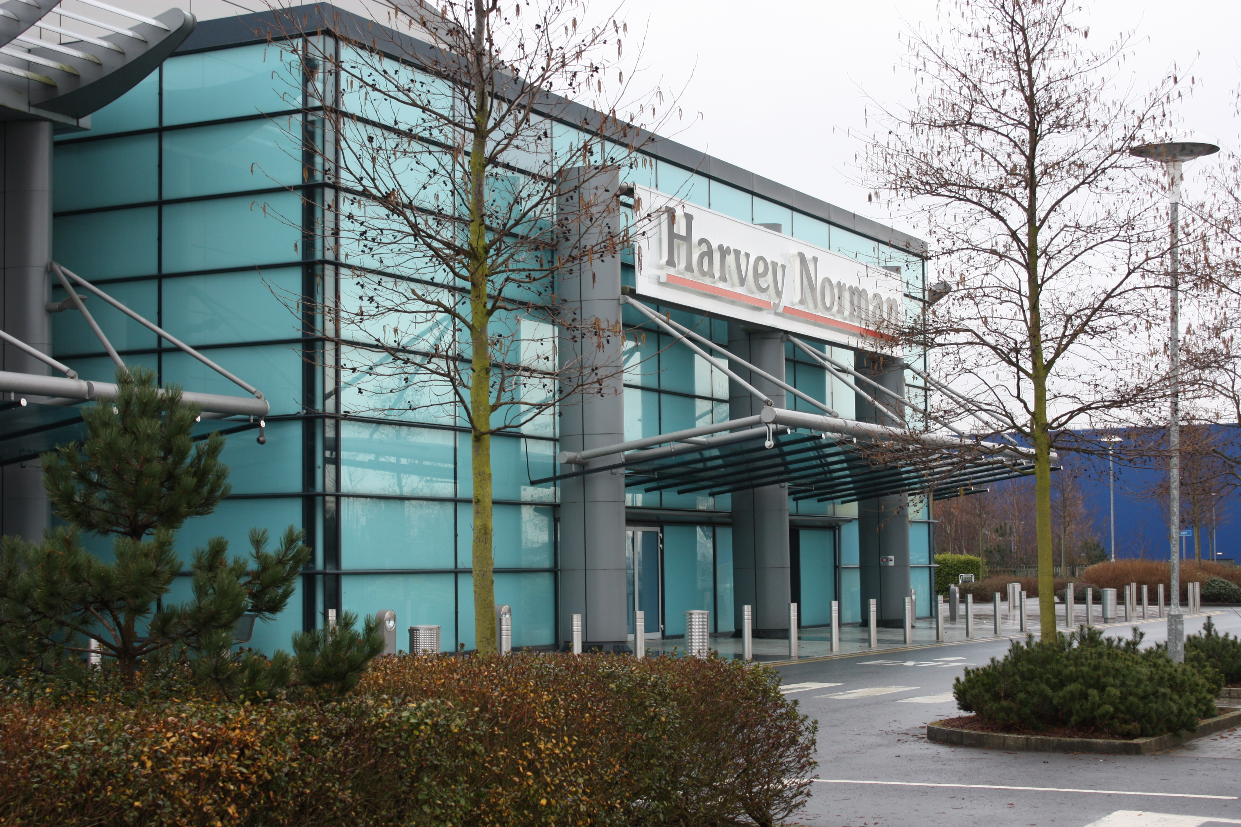 Harvey Norman, Holywood Exchange, Airport Road West, Belfast, Northern Ireland, February 2010